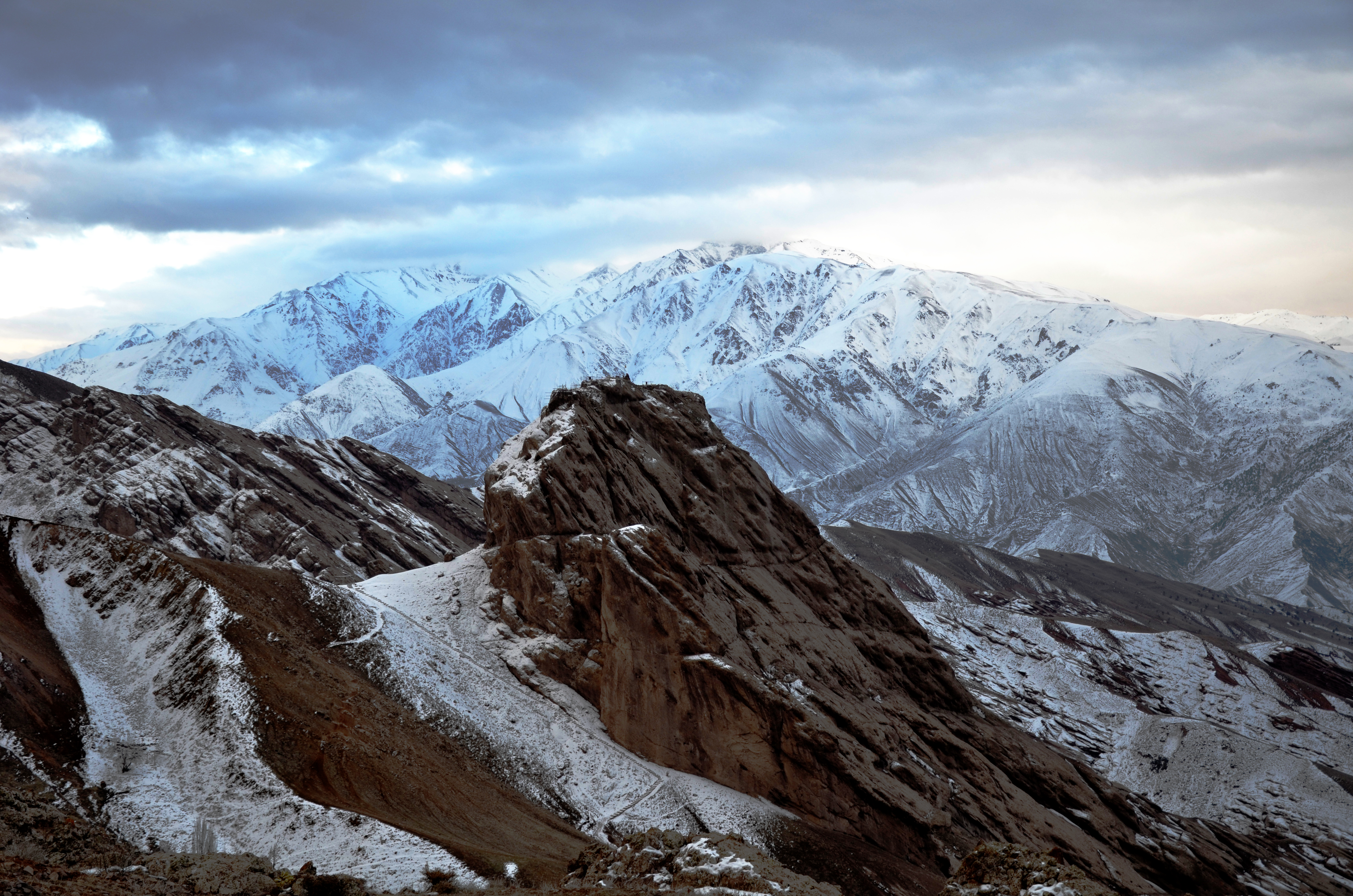 Iran - Qazvin - Alamout Castle View